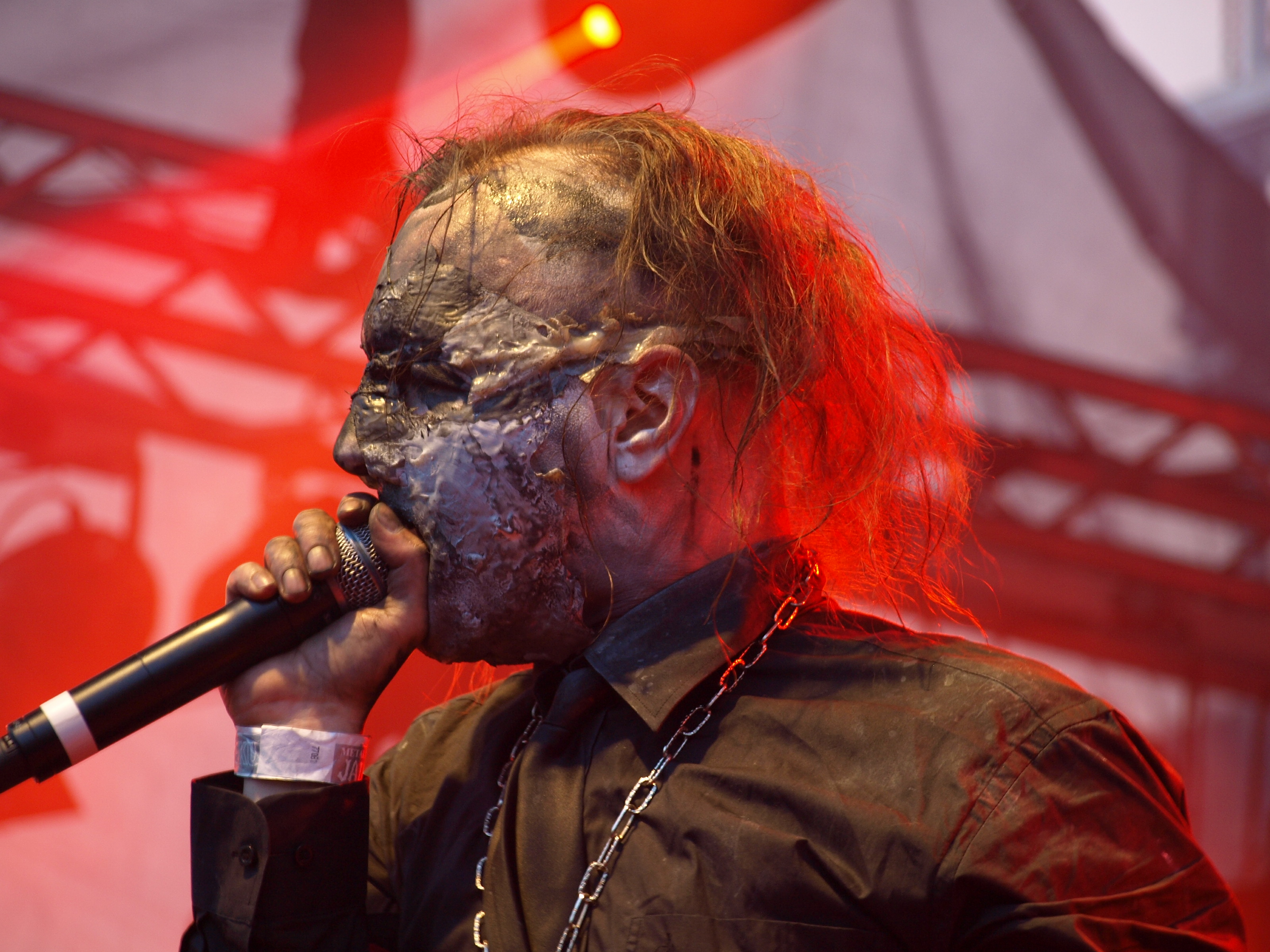 Norwegian black metal band Mayhem live at Jalometalli 2008 in Oulu.